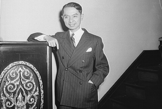 Thailand Minister Mom Rajawongse Seni Pramoj who gave a reception at the Thai Legation in Washington, D.C., in celebration of the nineteenth birthday of King Ananda of Thailand, who is currently residing in Switzerland.